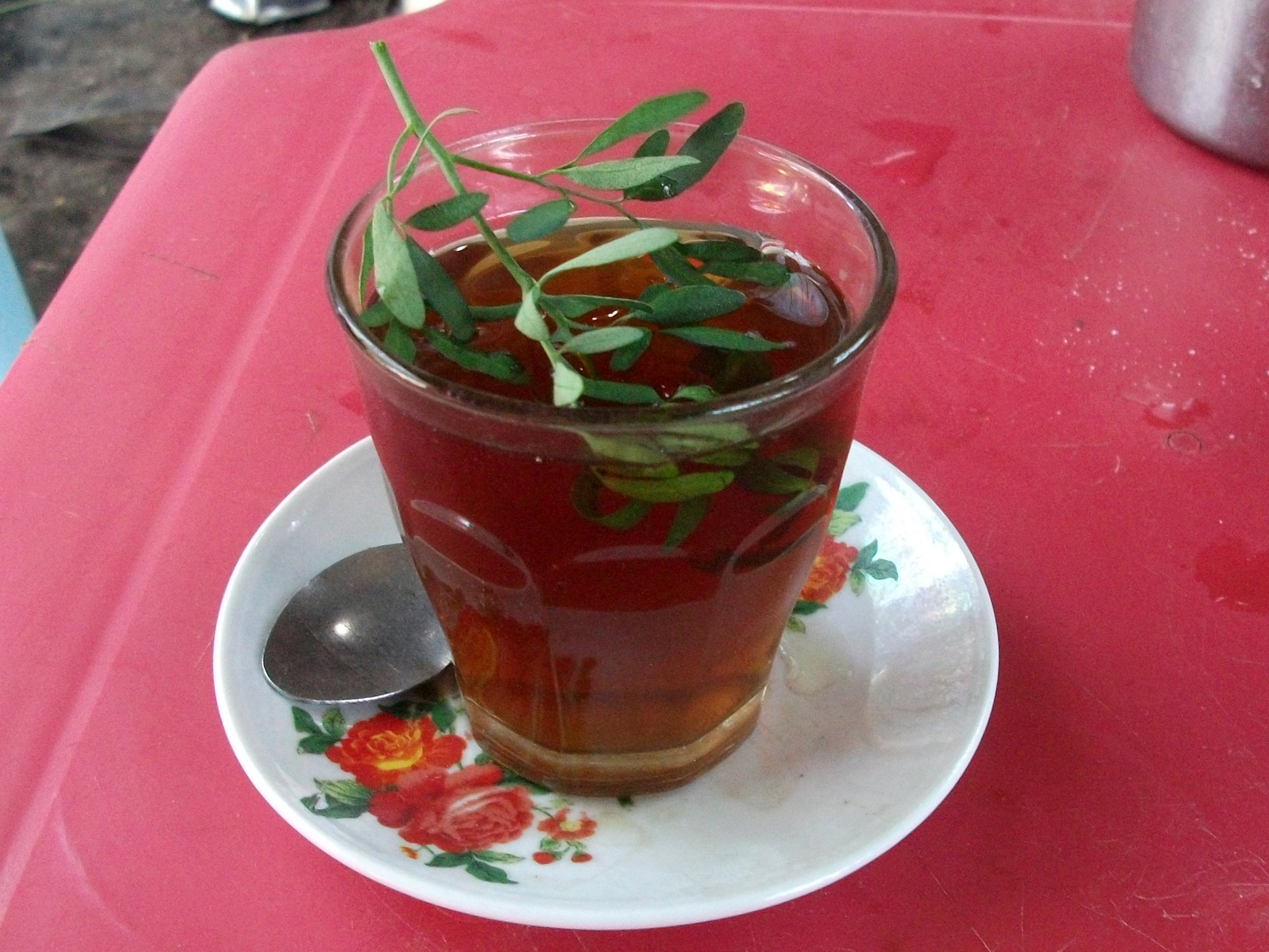 Rue (Ruta graveolens) in a cup of tea in Ethiopia